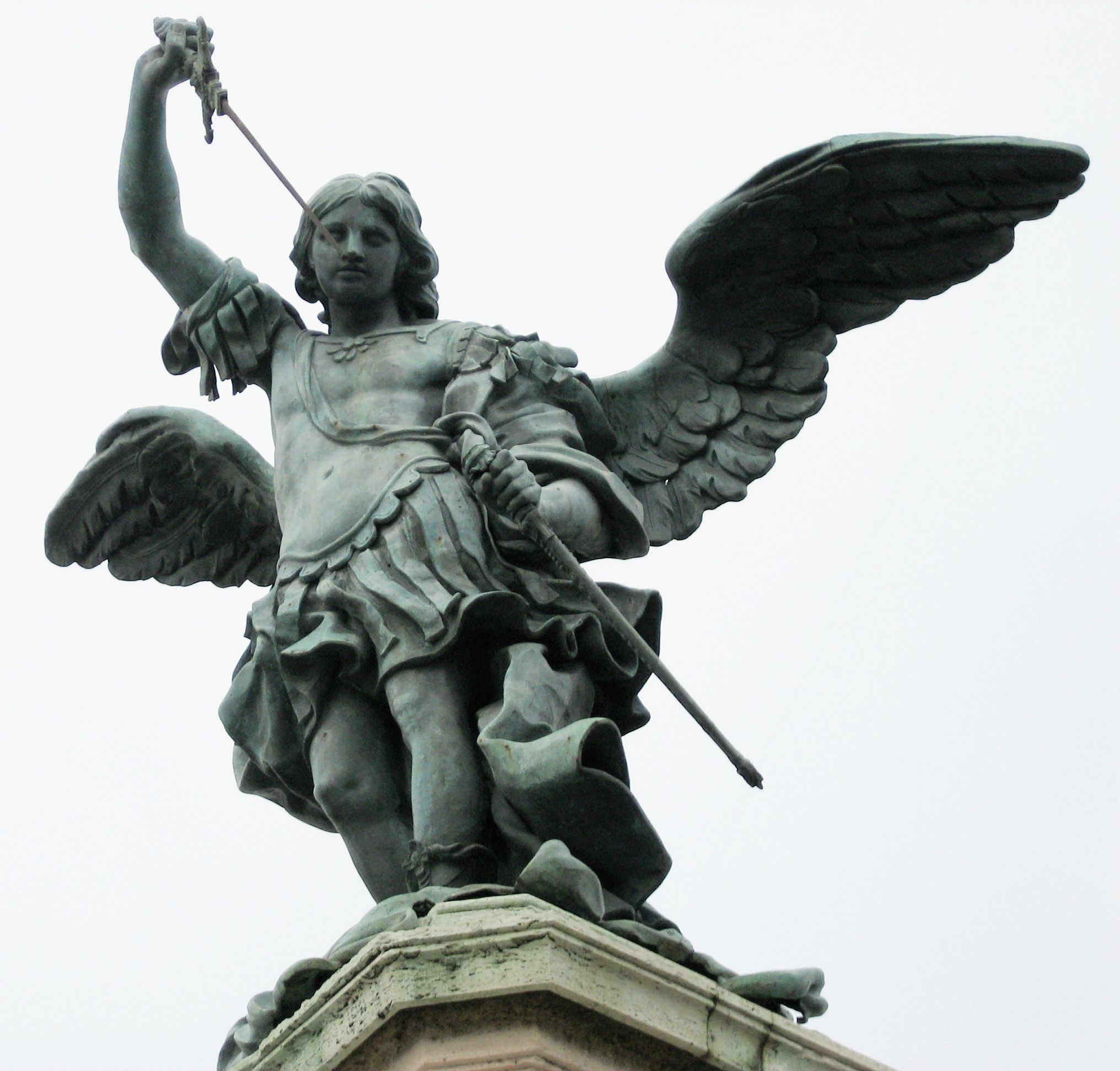 Angel standing on top of the castel Sant'Angelo, Rome.